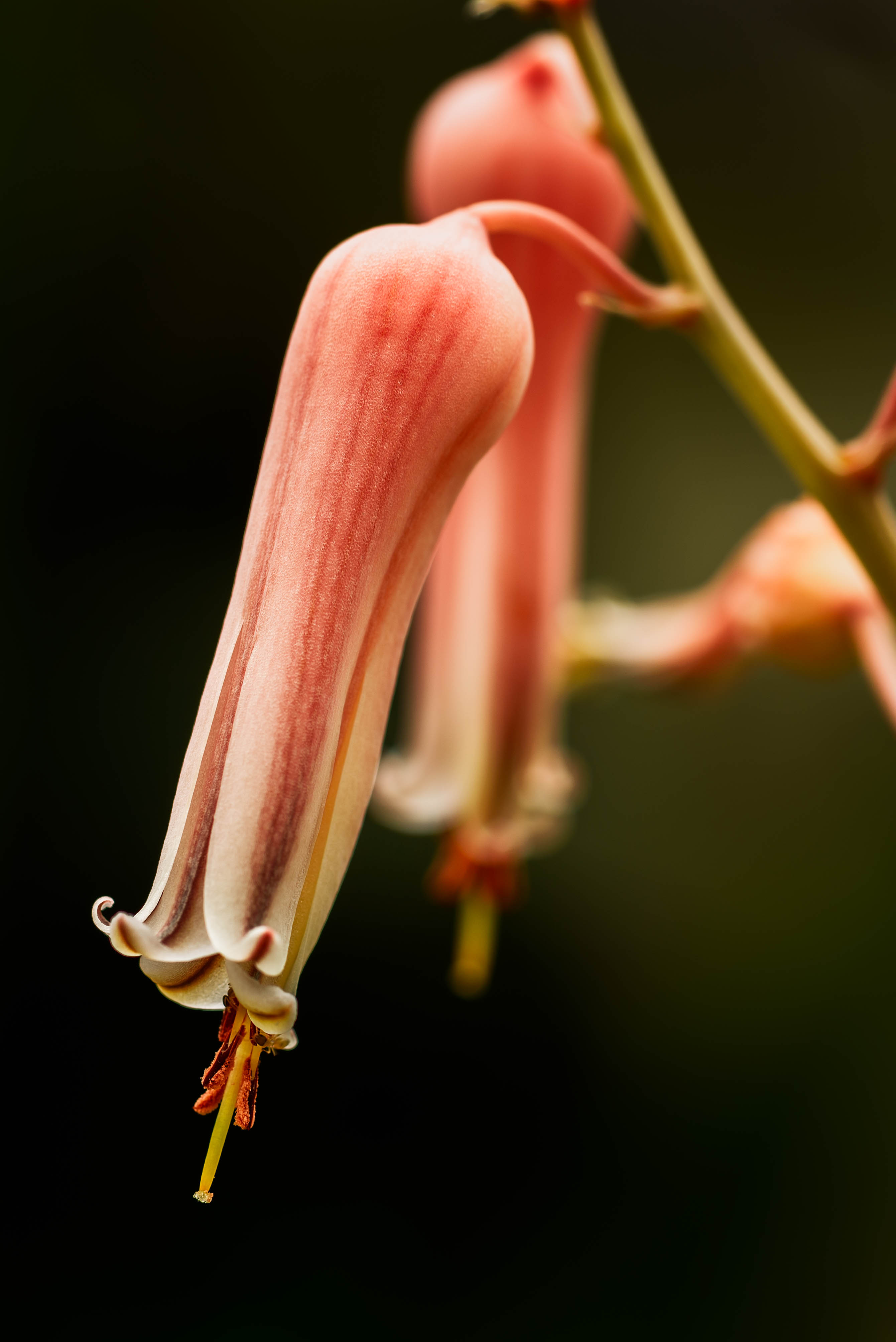 flower of Aloe jucunda